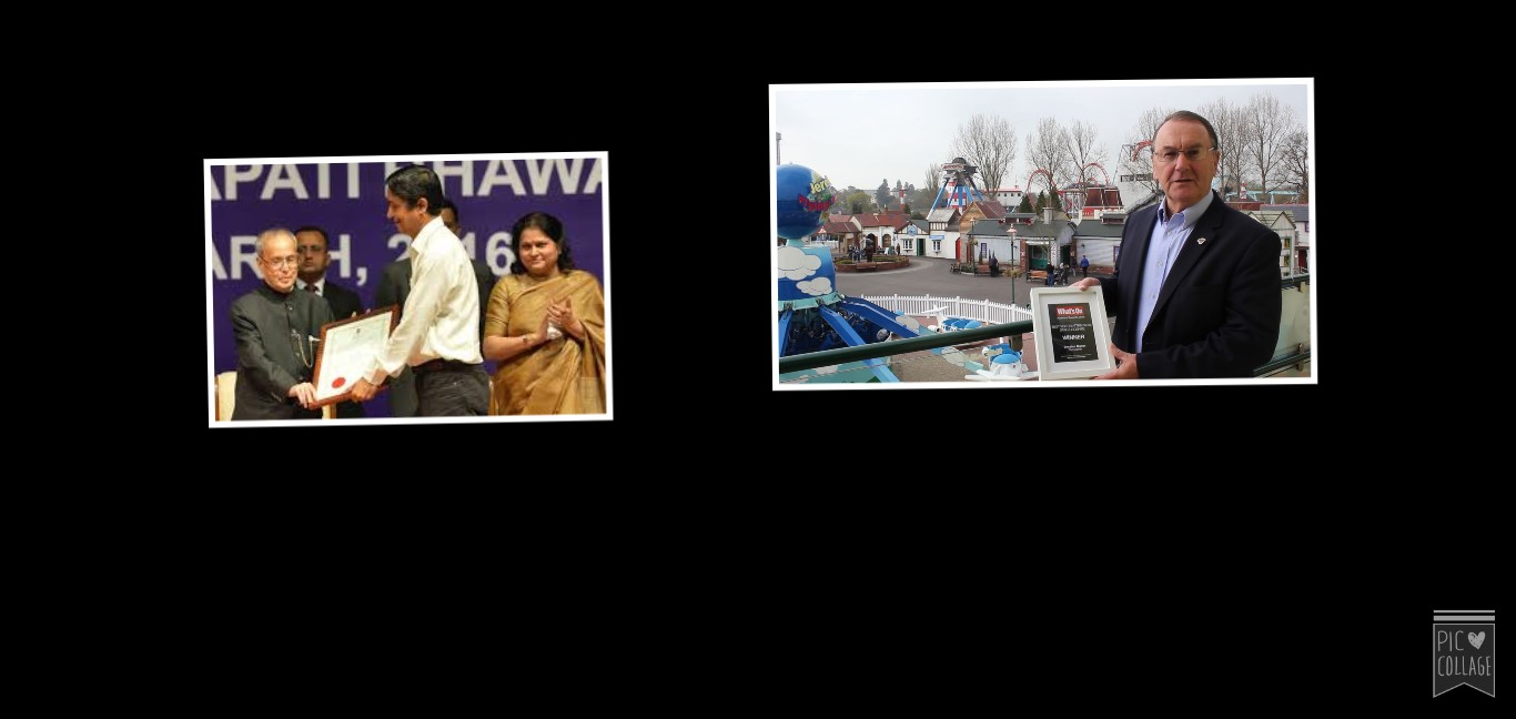 Visitor award